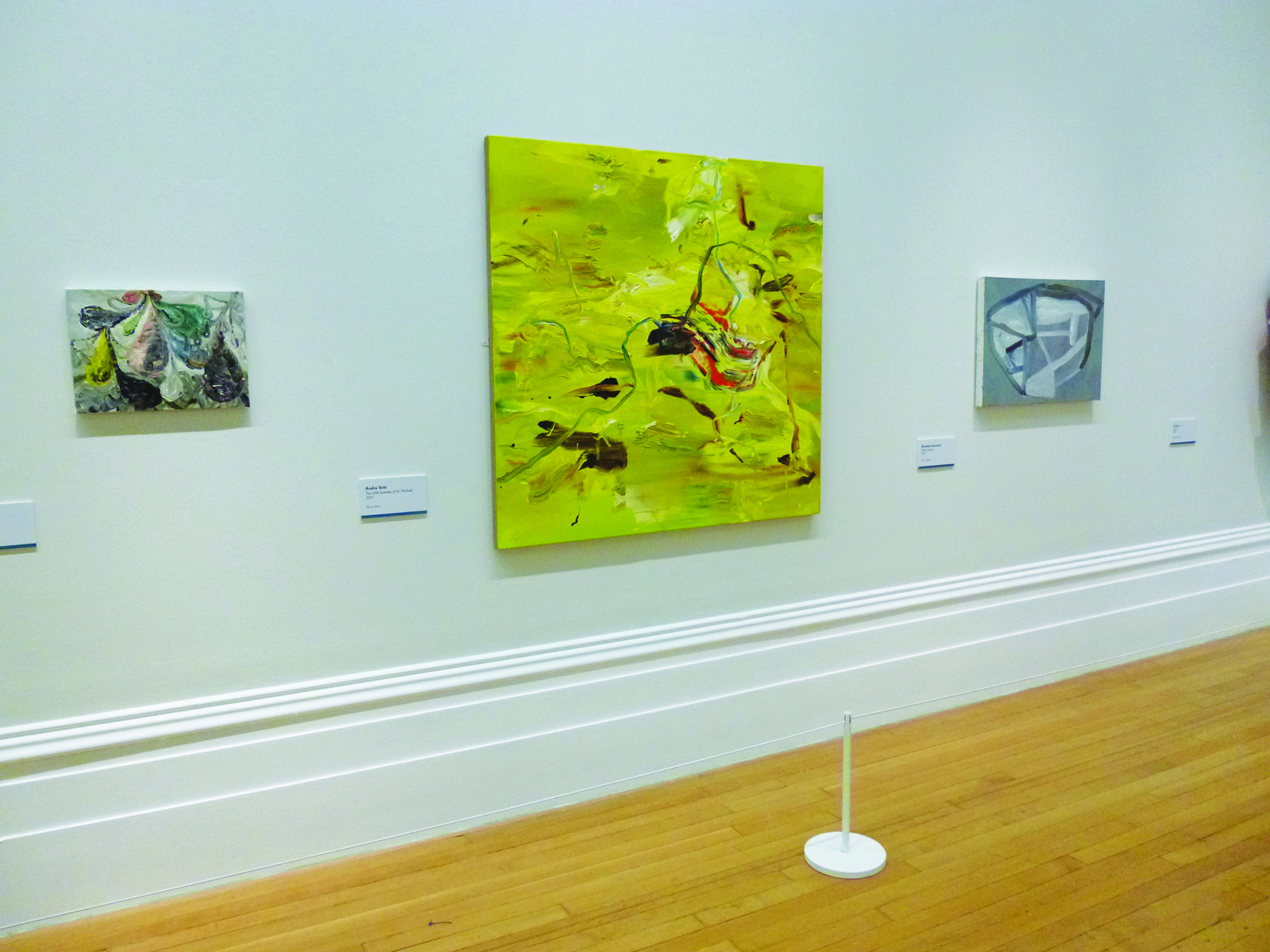 Andre Stitt John Moores exhbition view of 'The Little summer of St Michael'